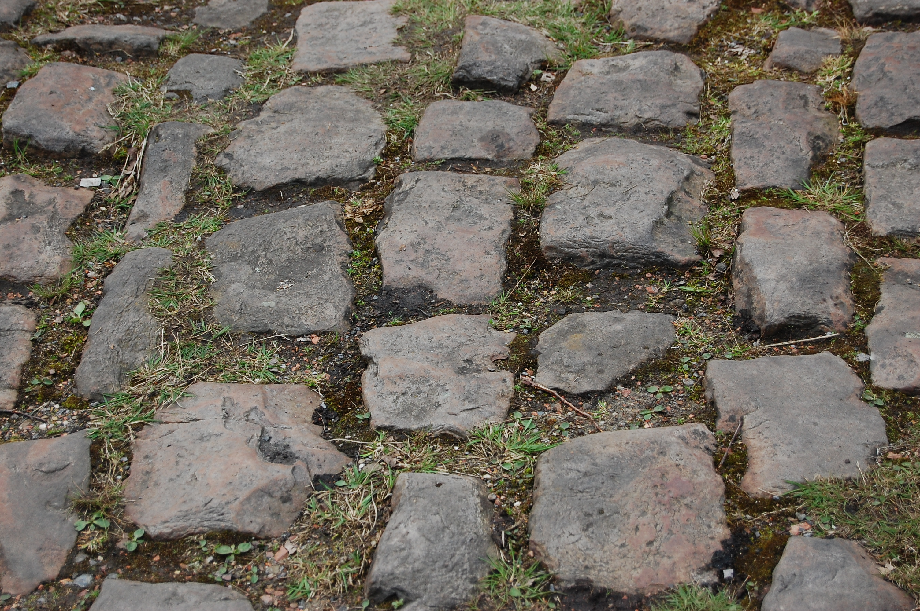 Cooble of the Trouée d'Arenberg (París-Roubaix 2009).